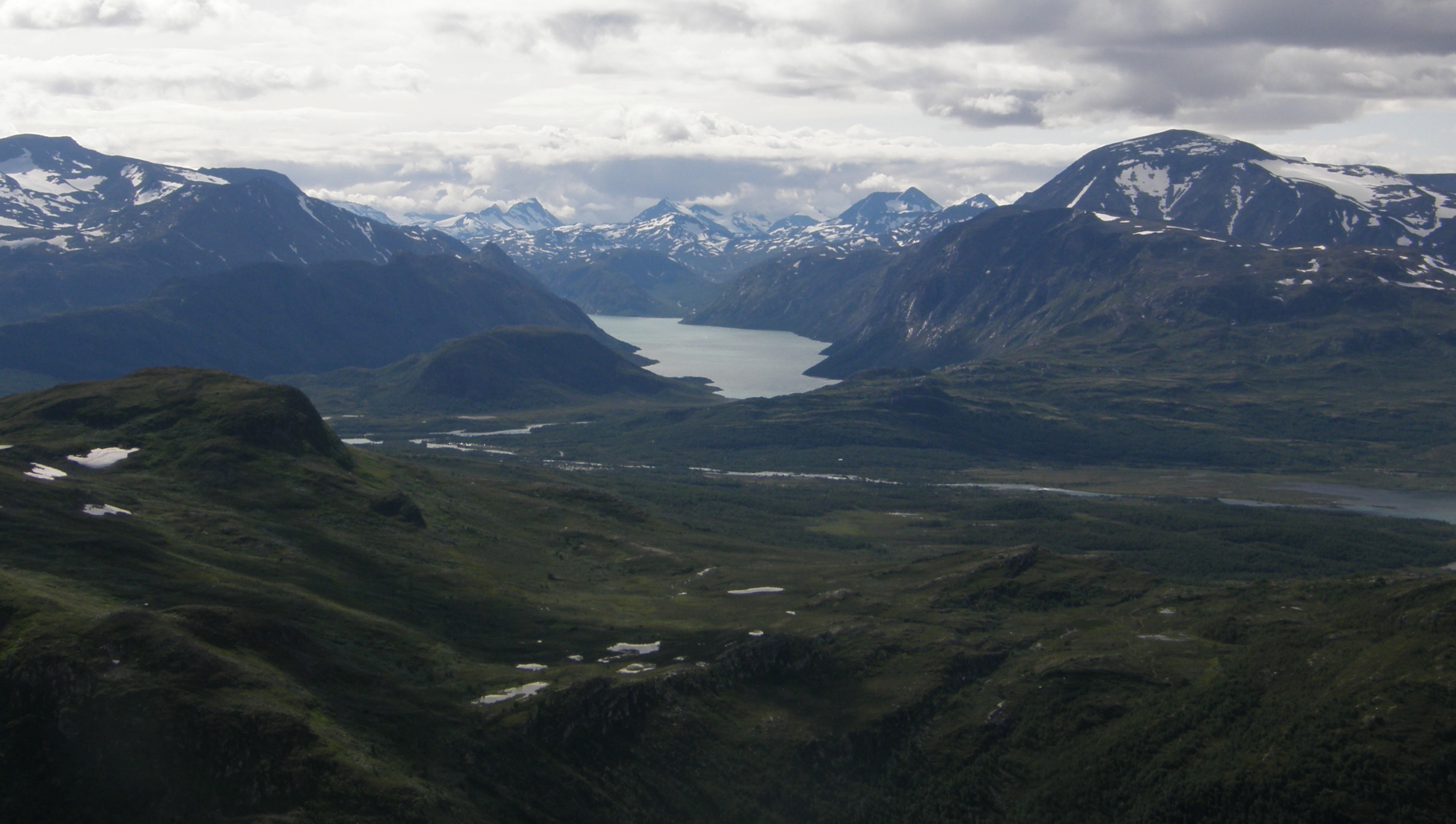 View from the mountain Sikkilsdalshø (1778 meters above sea) in Jotunheimen, Norway.